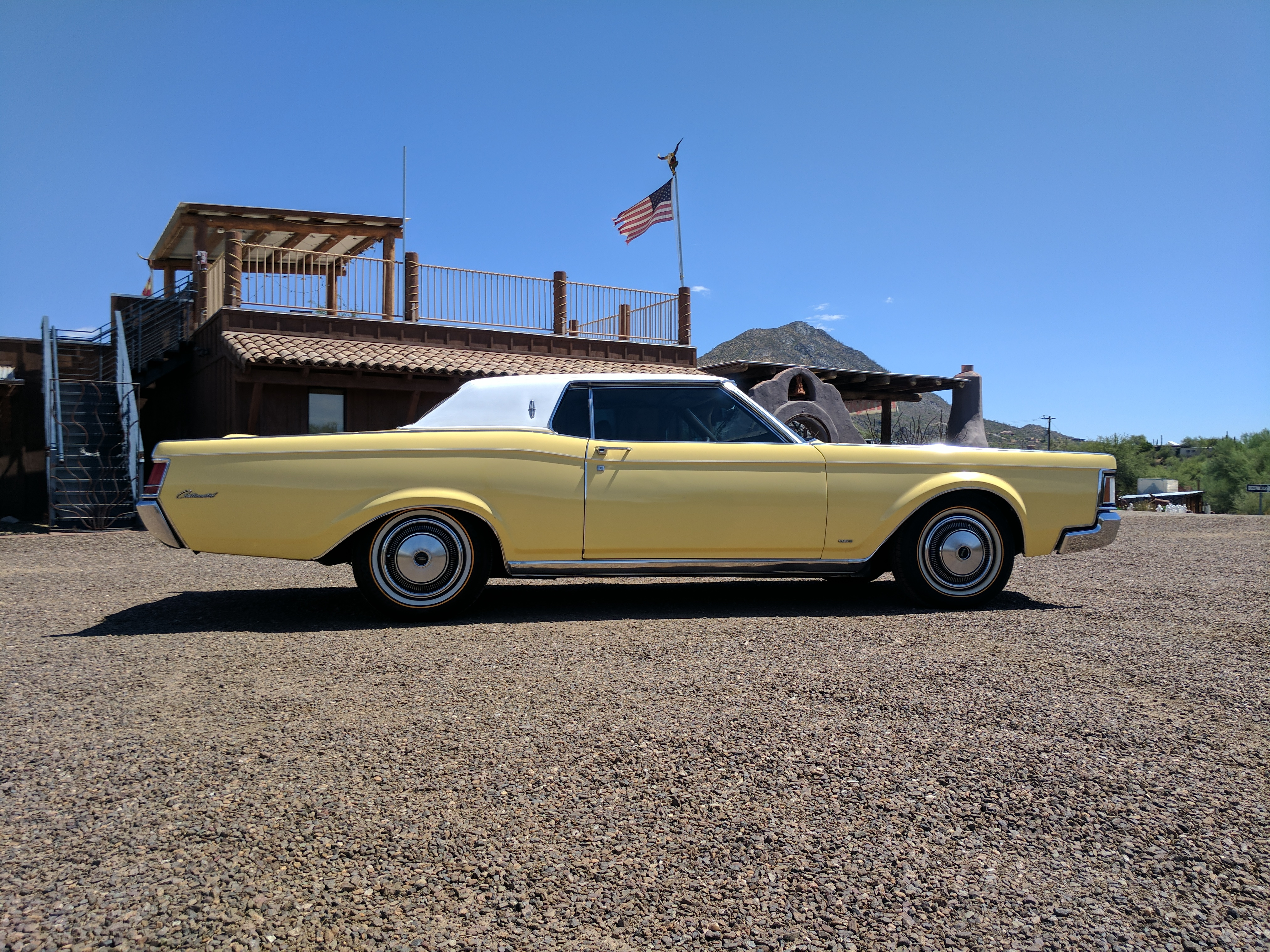 Passenger side profile view of 1971 Lincoln Mark III. Taken in August 2017 in Cave Creek, AZ.